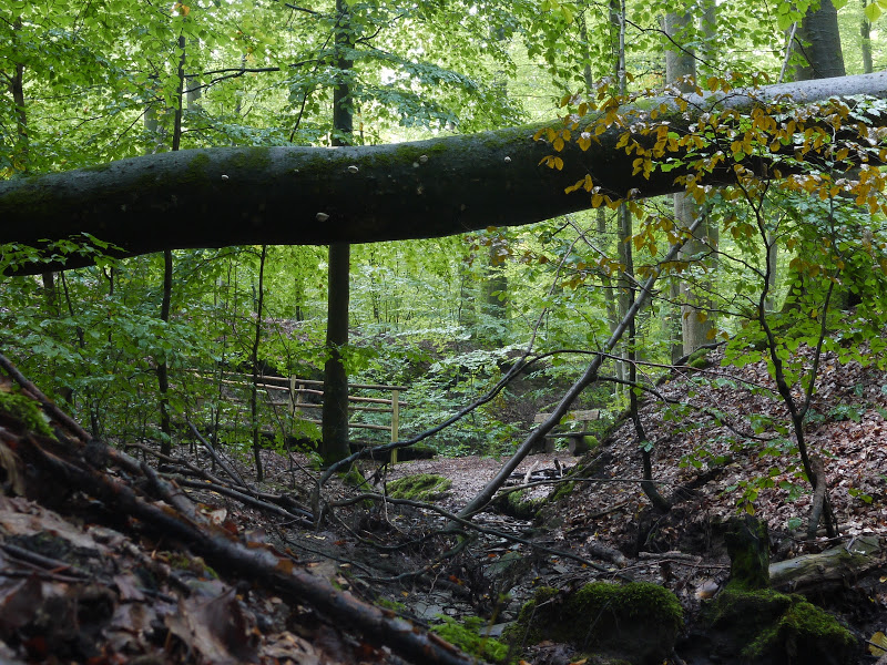 Naturdenkmal Wotansborn im Steigerwald mit historischem Buchenbestand